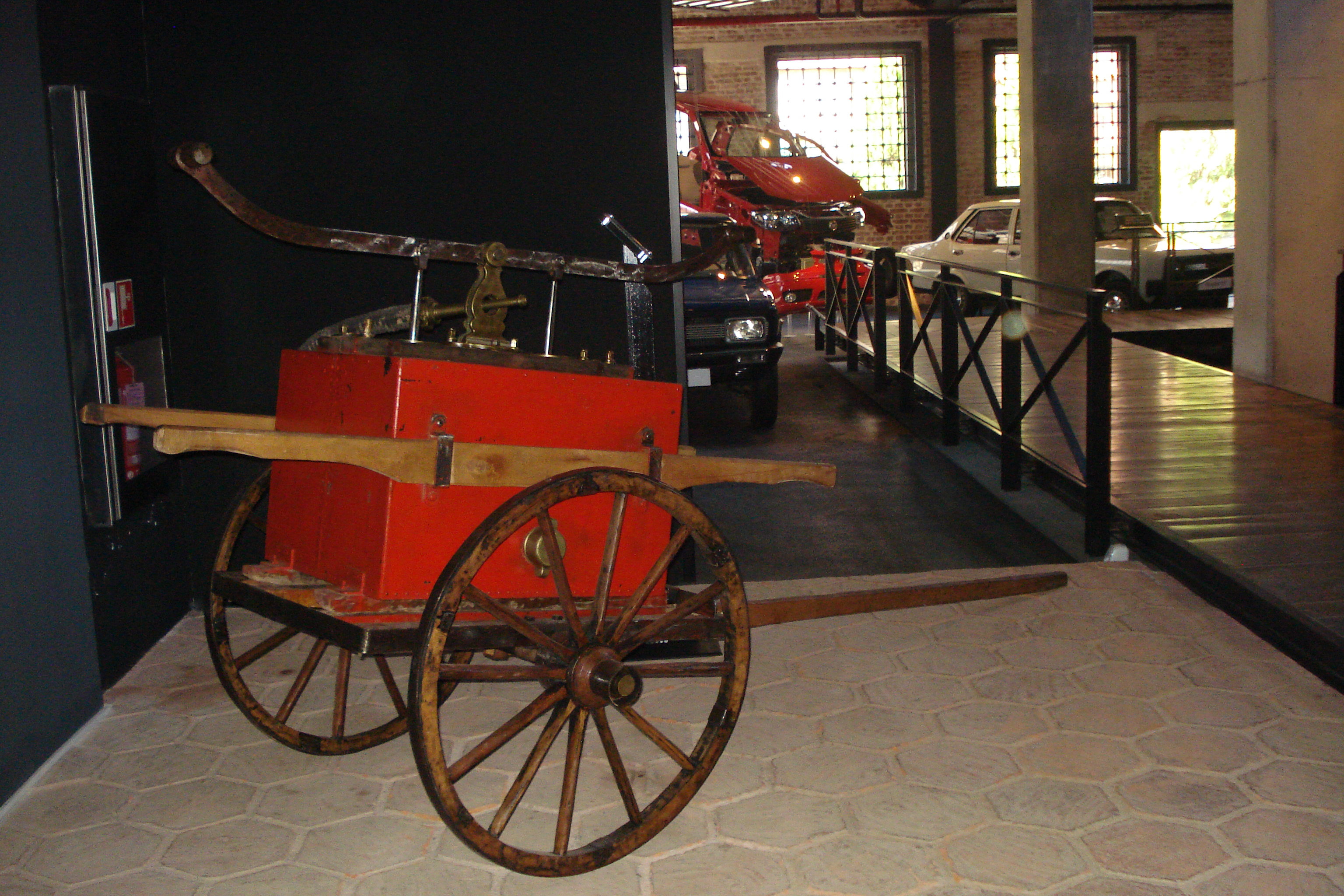 Tofas Bursa Museum Of Anatolian Carriages